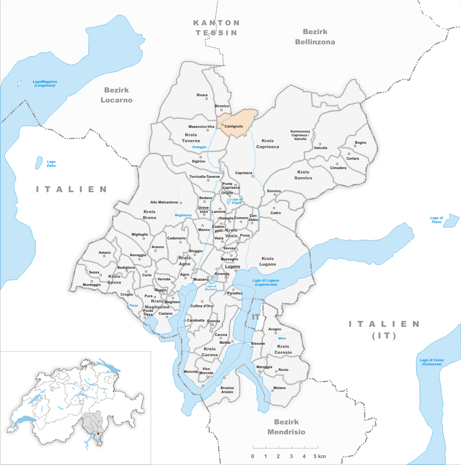 Municipality Camignolo